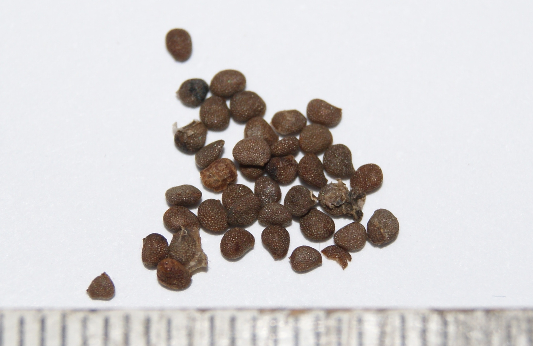 Belladonna, Deadly Nightshade (Atropa bella-donna L.), Solanaceae; Seeds.